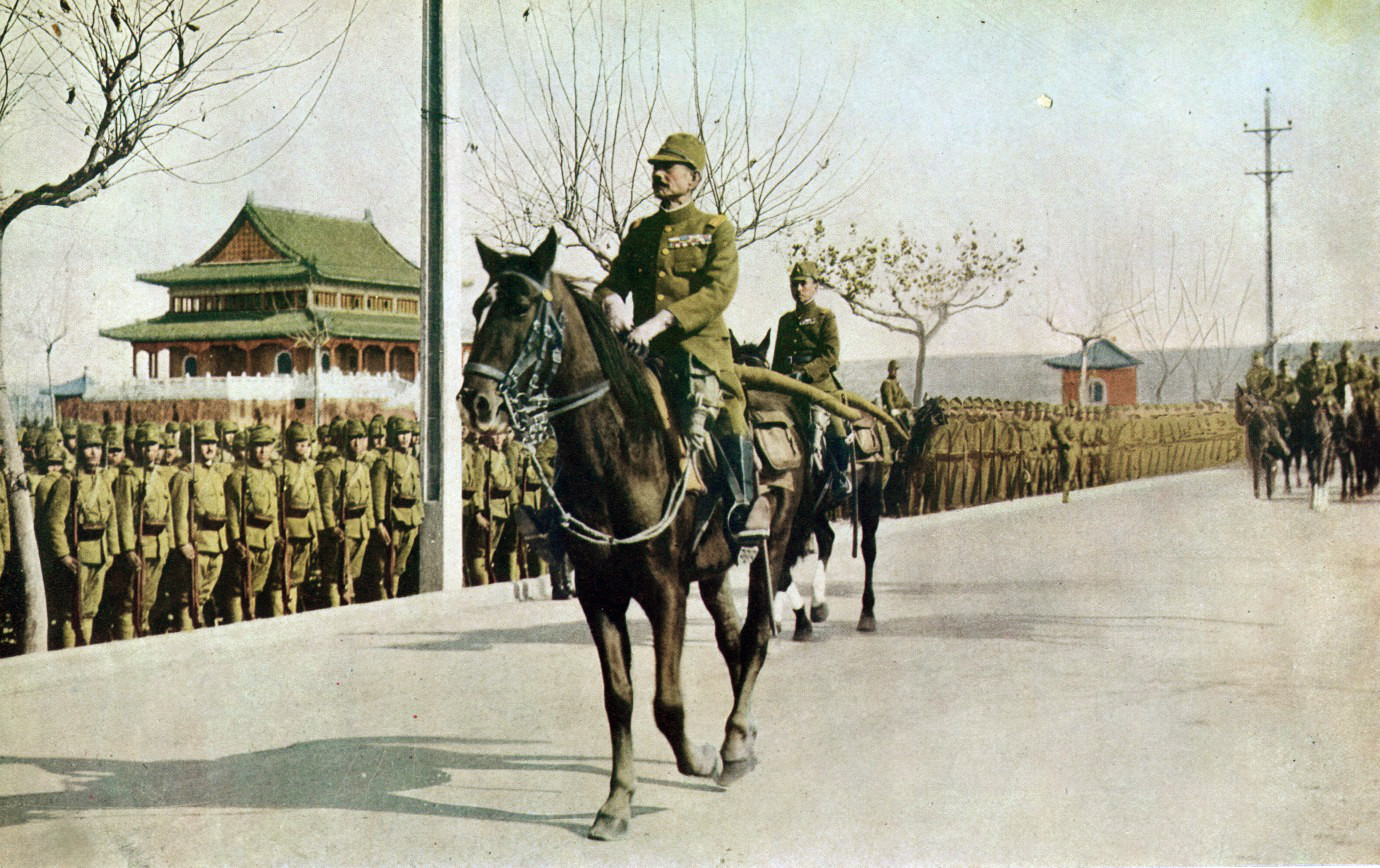 Iwane Matsui (in the foreground) and Prince Asaka (behind him) reviewing their troops on horseback during the entrance ceremony into Nanking following its fall to the Japanese Army.